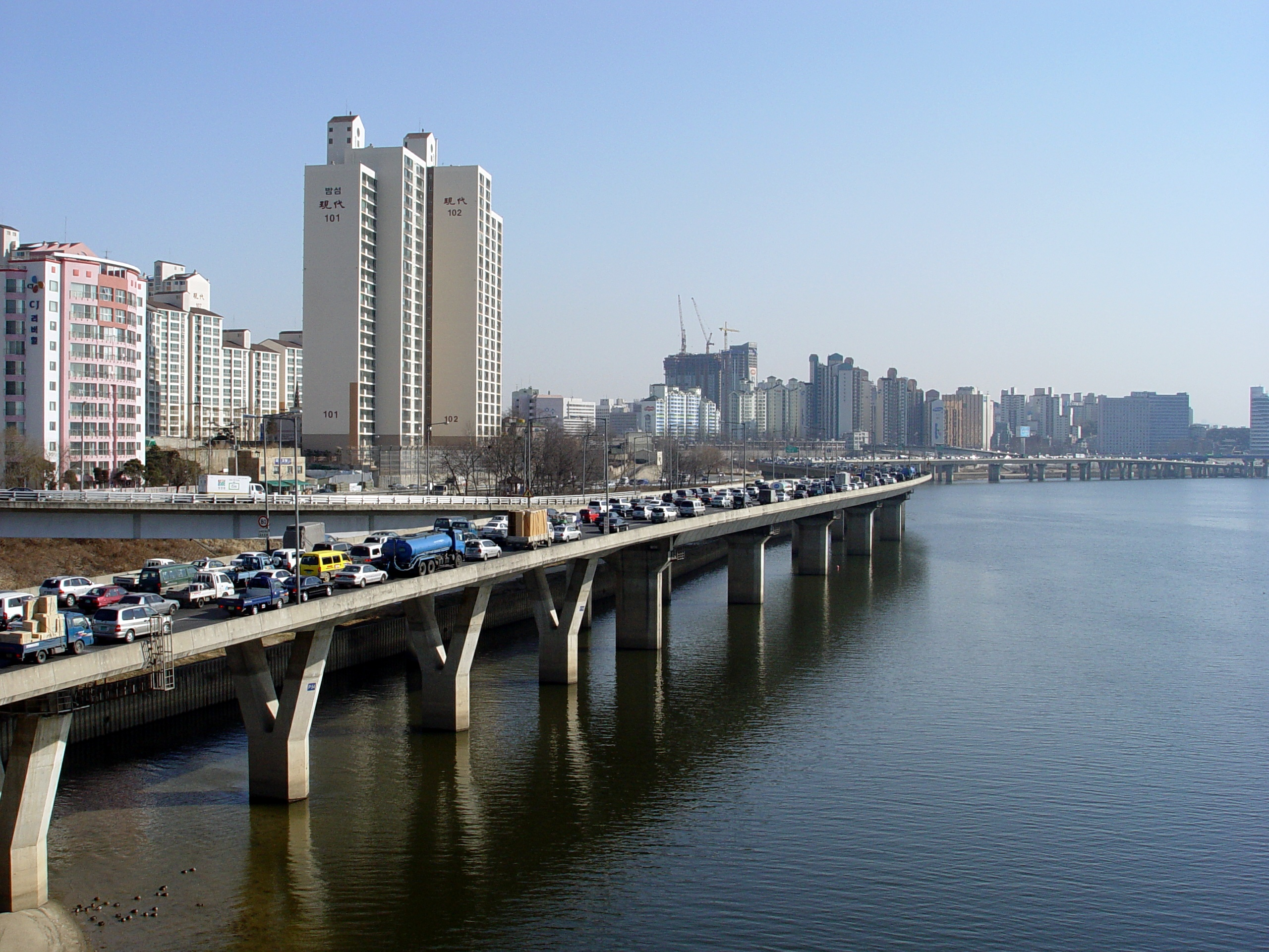 Looking east along the north bank of the Han from Seogang Bridge